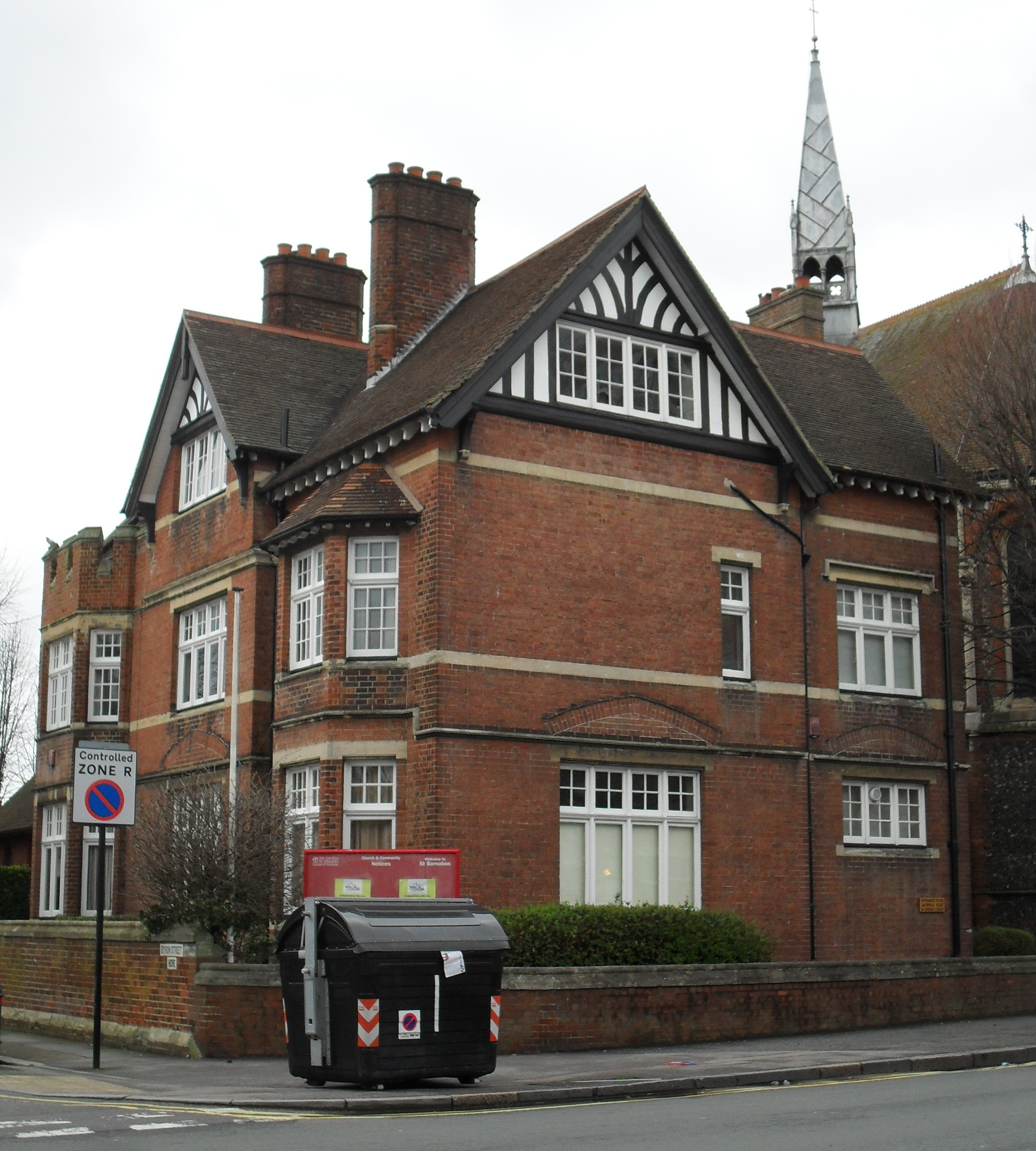 Vicarage of St Barnabas' Church, Sackville Road, Hove, City of Brighton and Hove, England. Built in 1893 next to John Loughborough Pearson's Anglican church of 1882–83.